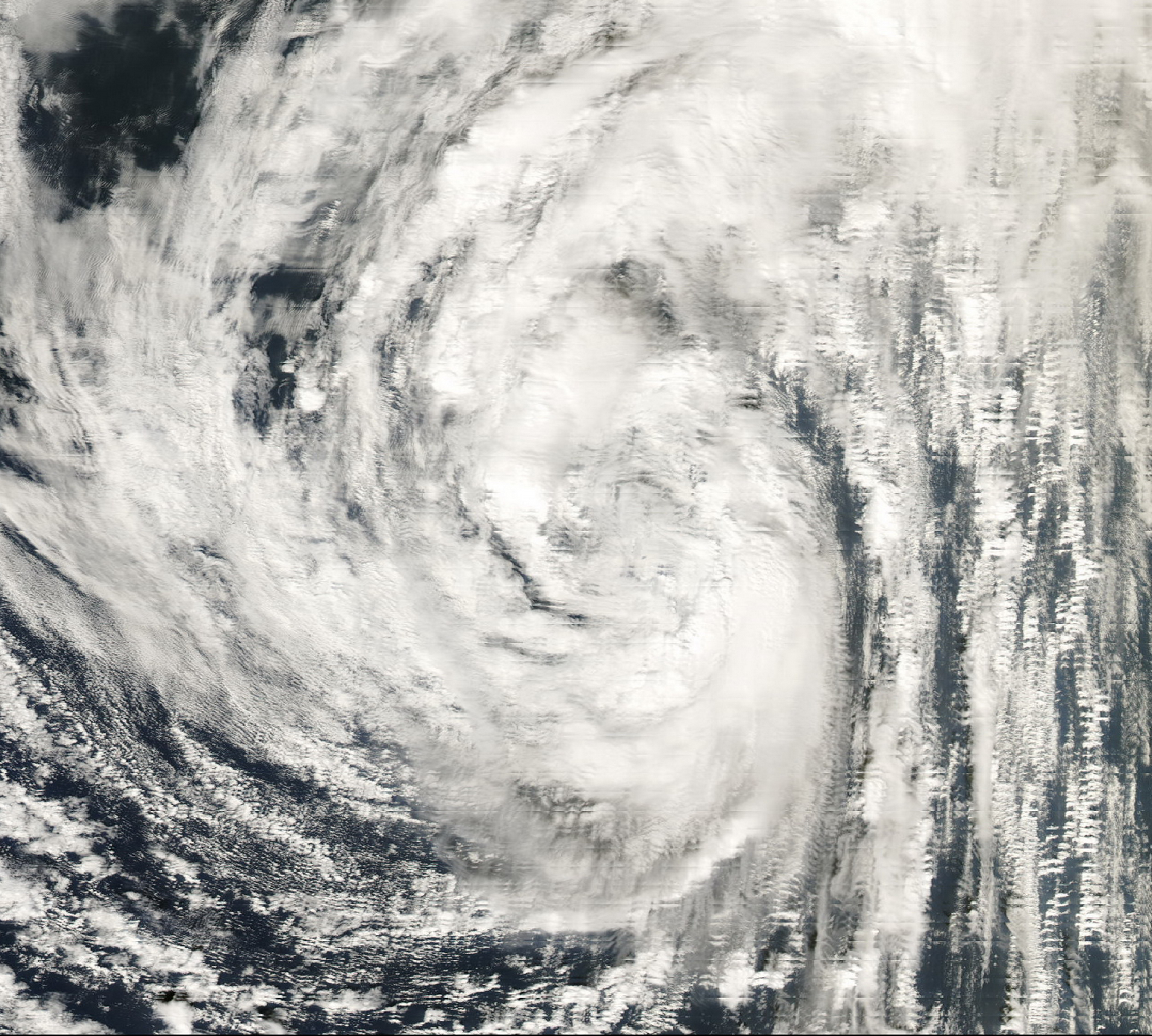 Tropical Storm Laura at peak intensity was token by Aqua satellite